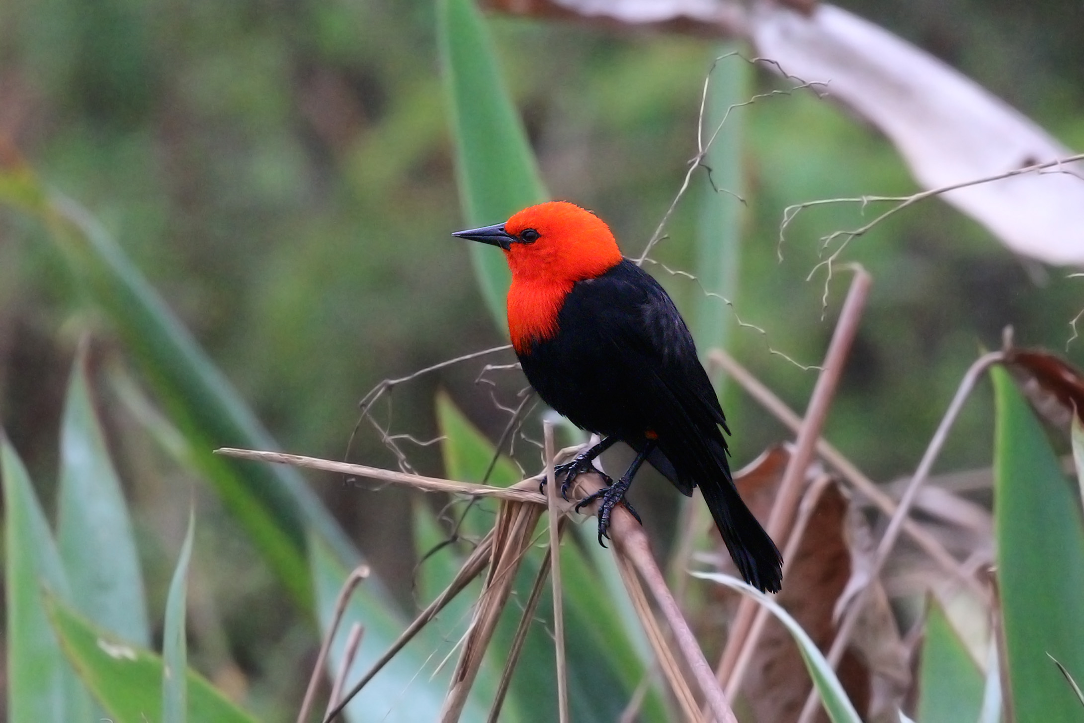 Scarlet-headed blackbird (Amblyramphus holosericeus), the Pantanal, Brazil